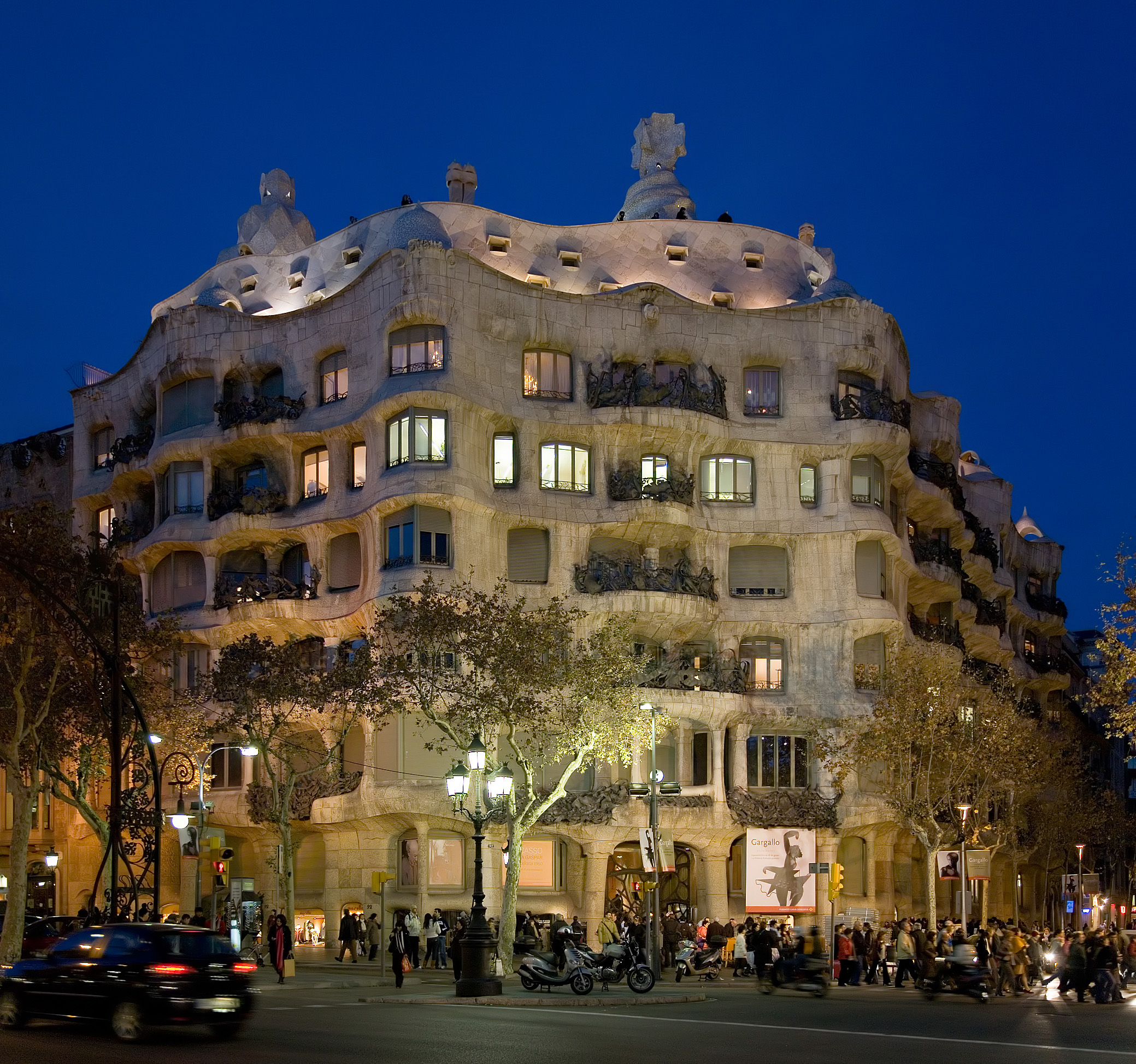 Casa Milà at dusk in Barcelona, Spain. The building is known either as 'Casa Milà' (the owner's name) and popular called 'La Pedrera' because of its look. Taken by myself with a Canon 5D and 24-105mm f/4L IS lens.